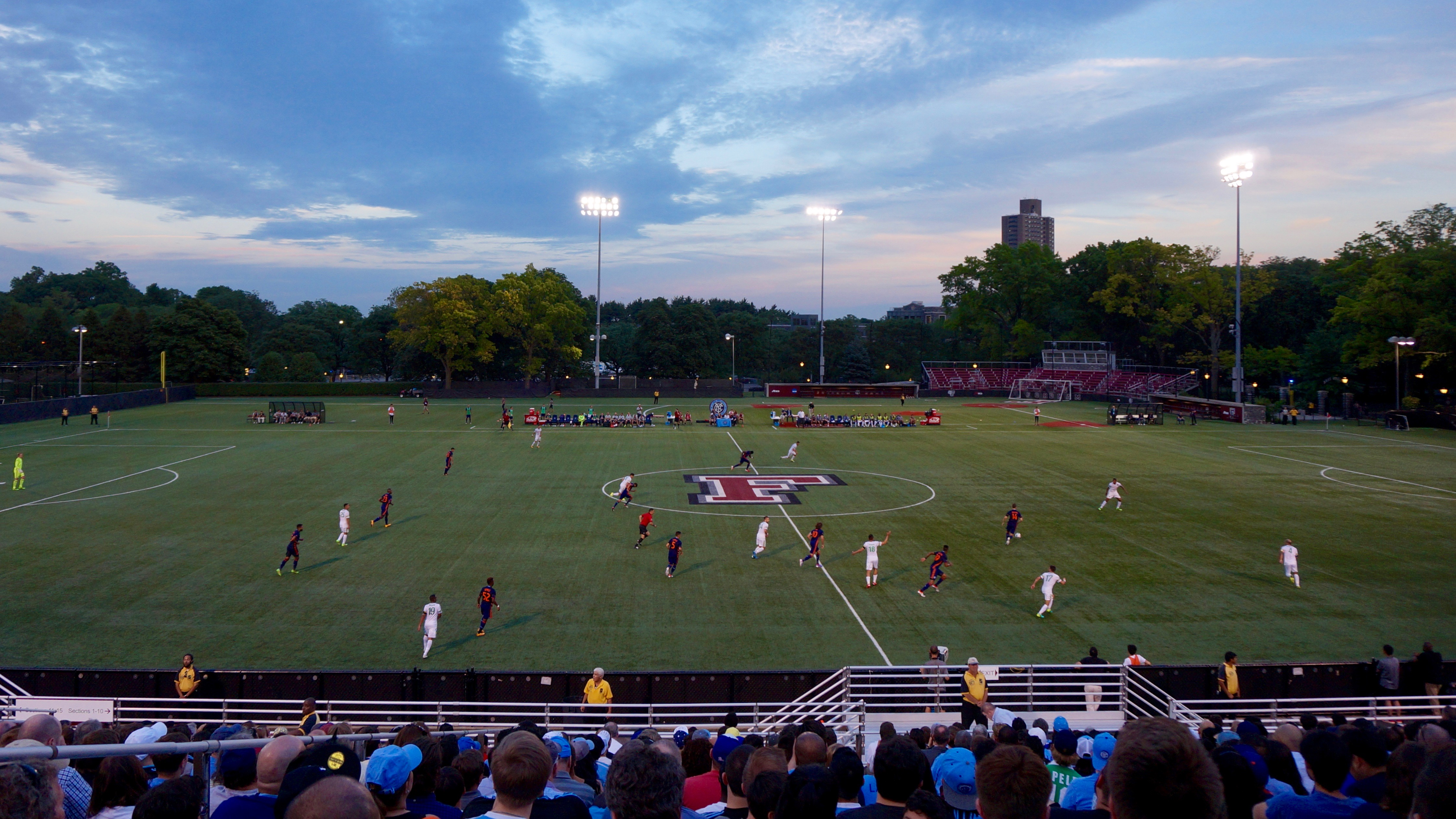 New York Cosmos vs. NYCFC at Jack Coffey Field in the 4th Round of the 2016 US Open Cup. Cosmos won 1-0.